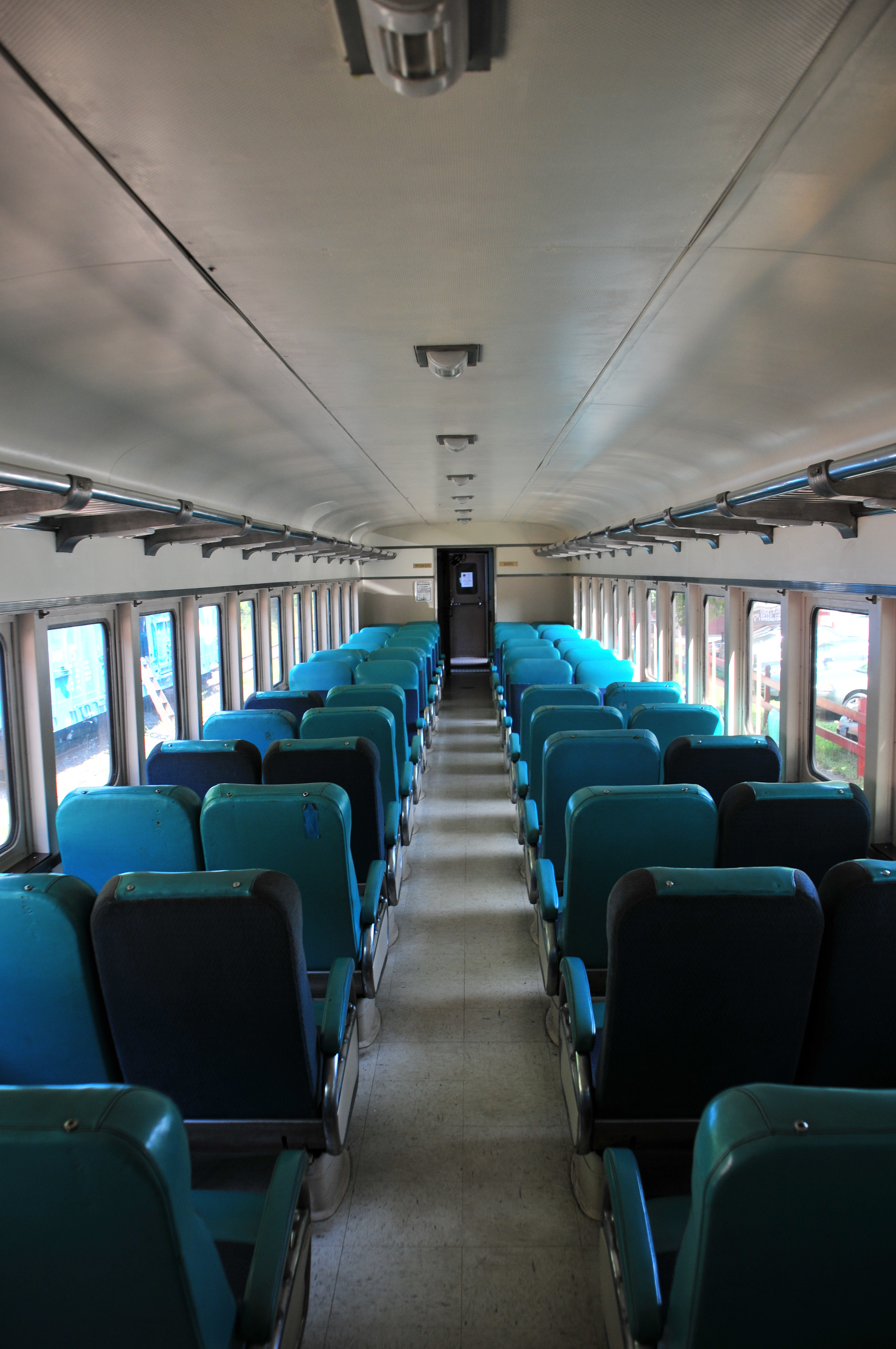 Osceola and St. Croix Valley Railway - empty coach